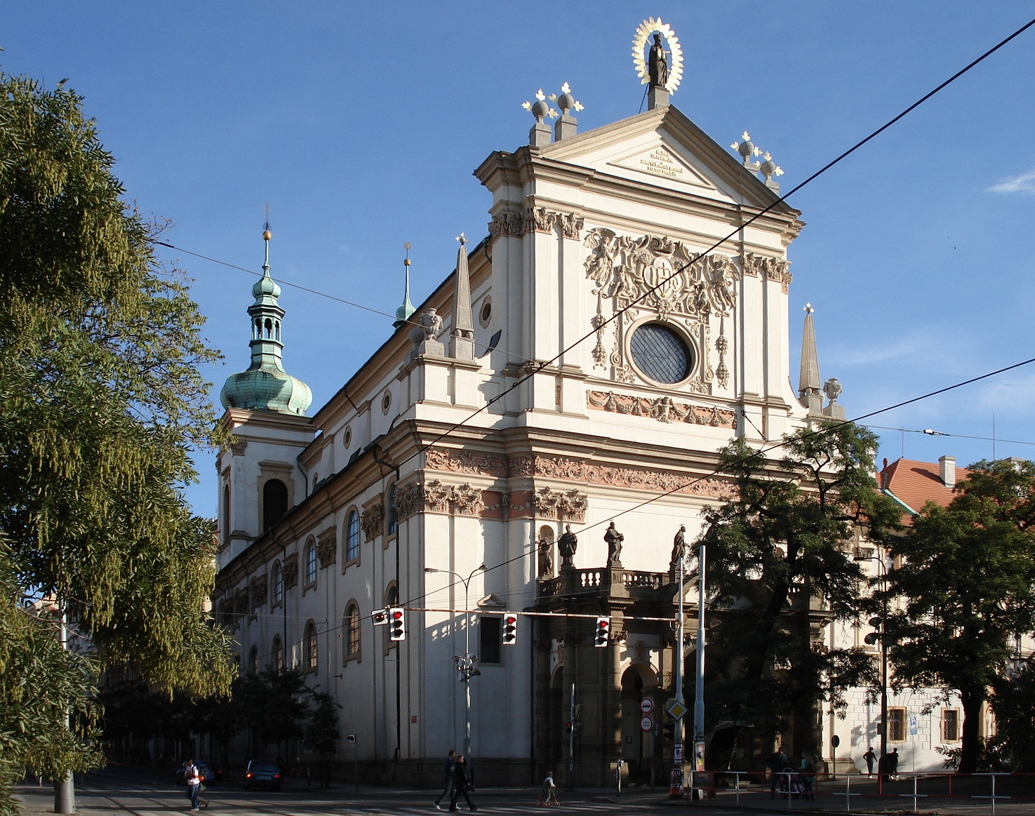 Church of St Ignace on Charles square in Prague (Architect: Carlo Lurago; 1670)